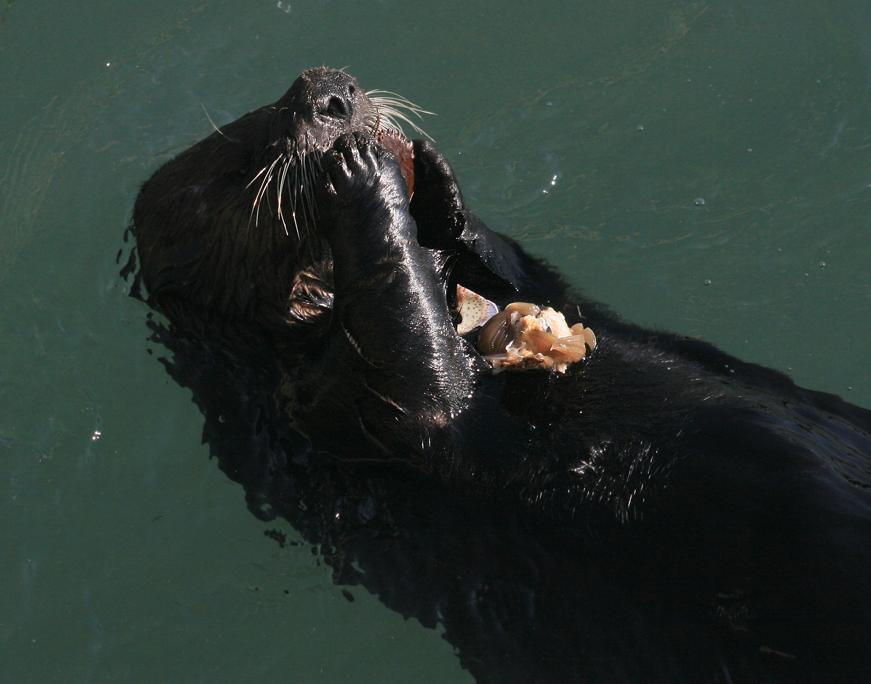 Sea Otter at Moss Landing consuming a crab while using his belly as a table.